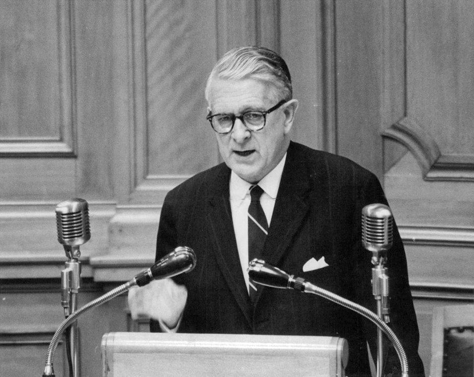 Bertil Ohlin in the second chamber's speaker chair